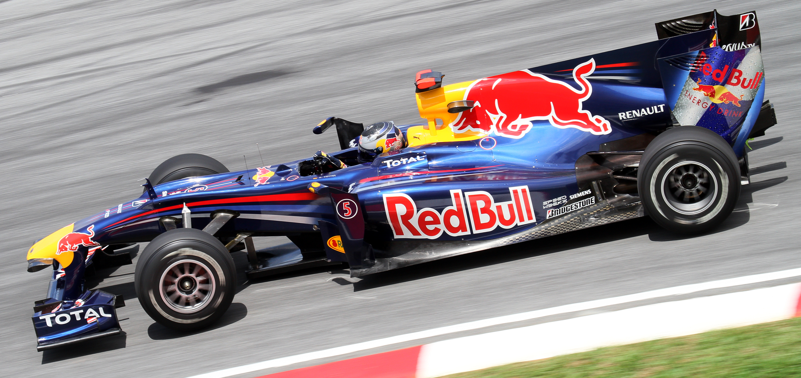 Formula One 2010 Rd.3 Malaysian GP: Sebastian Vettel (Red Bull) during Friday 2nd Free Practice session.